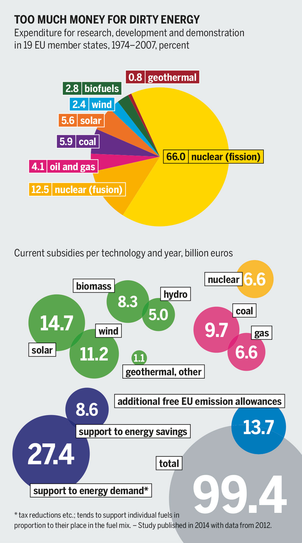 Too much money for dirty energy